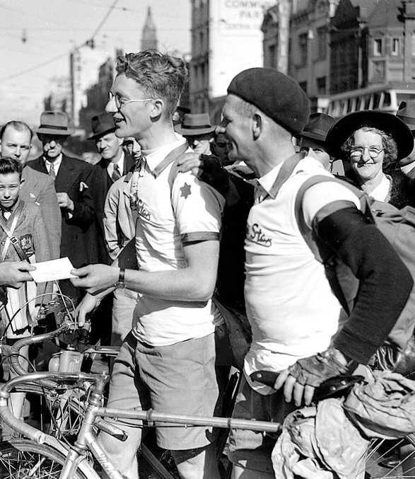 Cyclists Hubert Opperman and Russell Mockridge arrive in Sydney from Melbourne on their Malvern Star bicycles on 13 June 1948